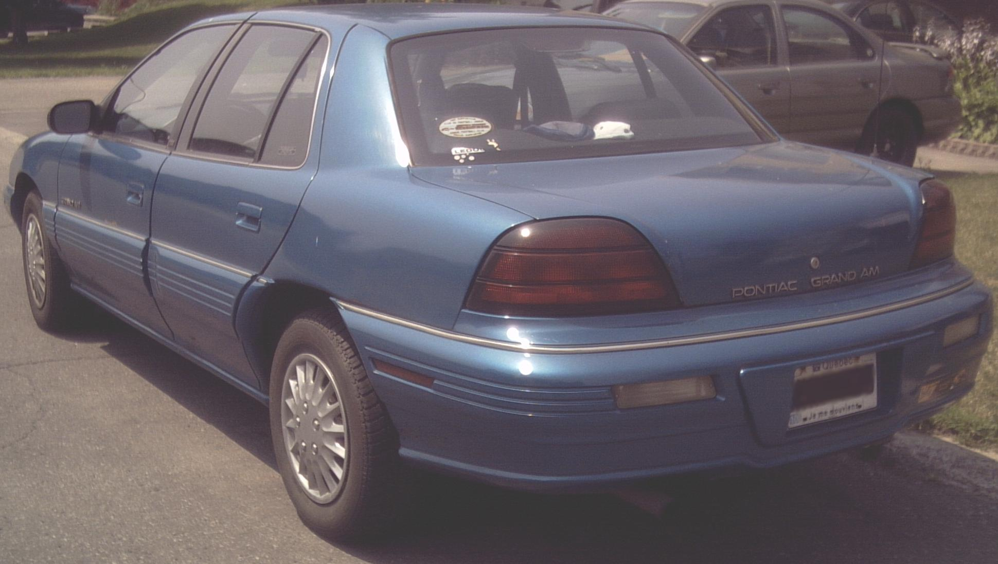 1993-1995 Pontiac Grand Am